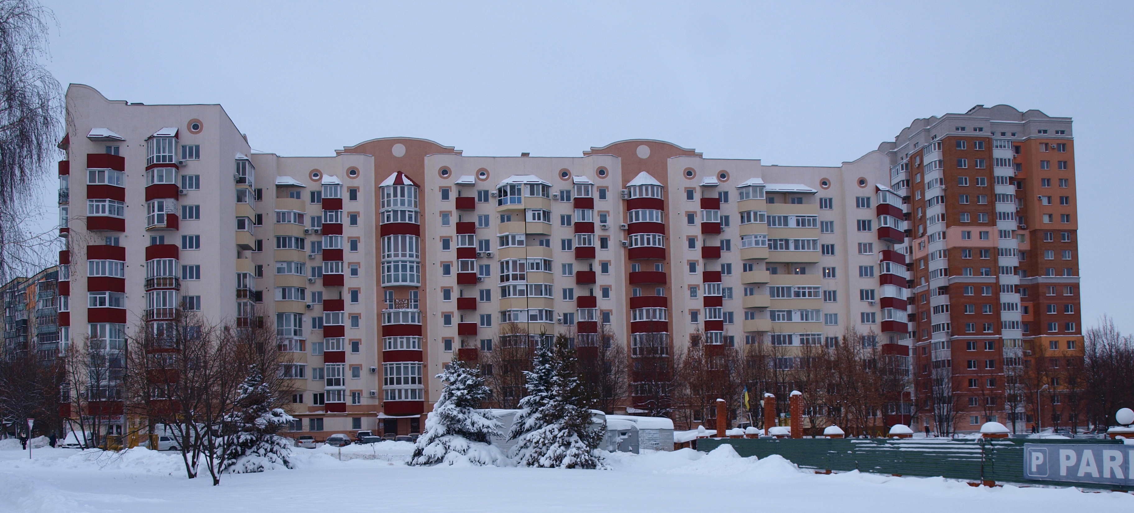 Poltava, Sady-1